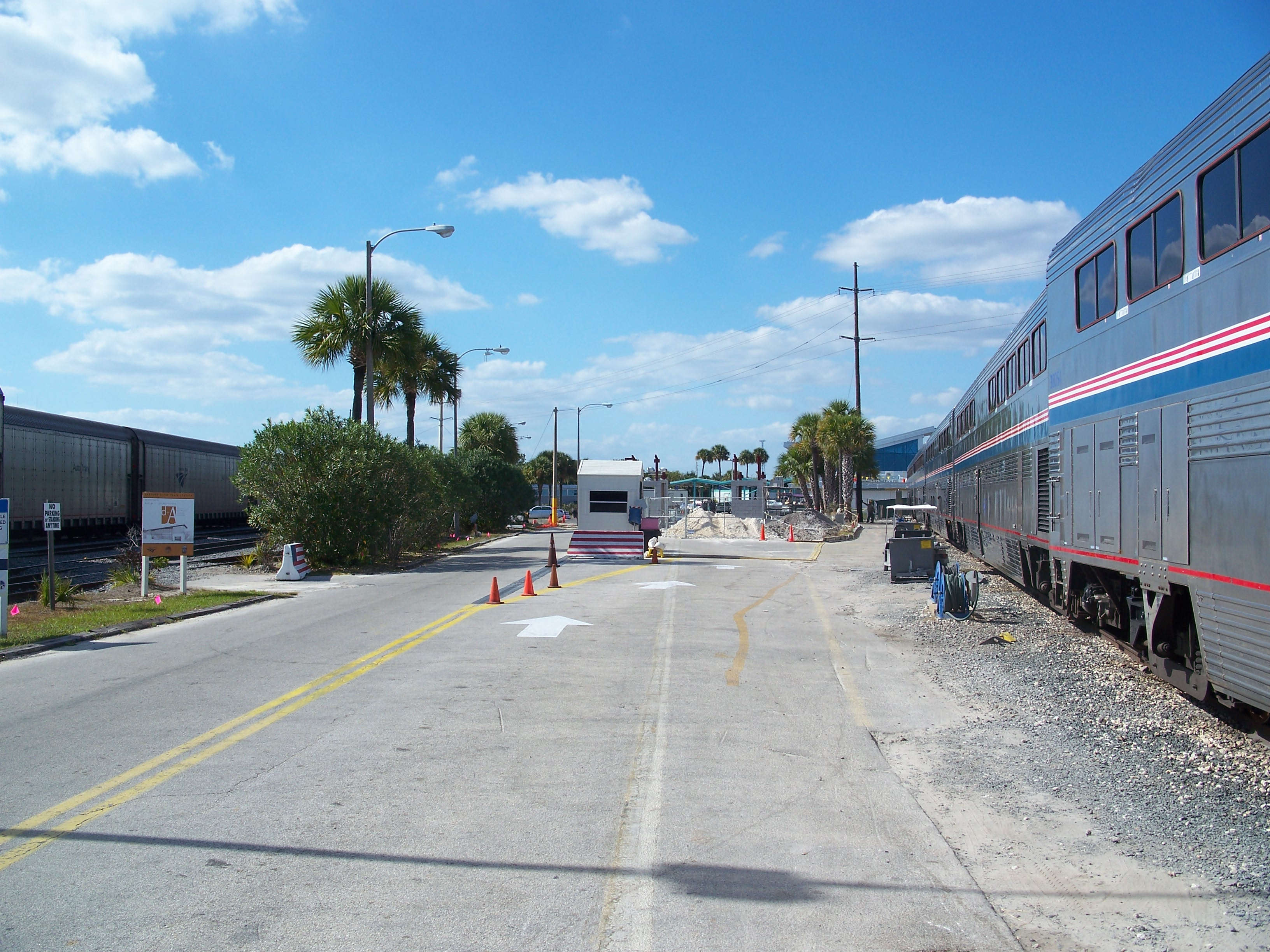 Sanford, Florida: Sanford (Amtrak station)